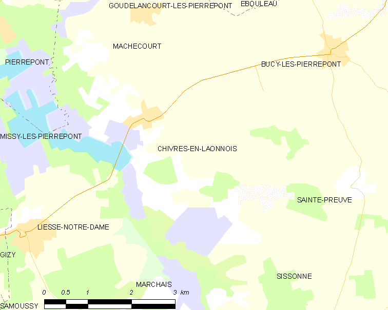 Map of French commune: Chivres-en-Laonnois Map commune FR insee code 02189.png